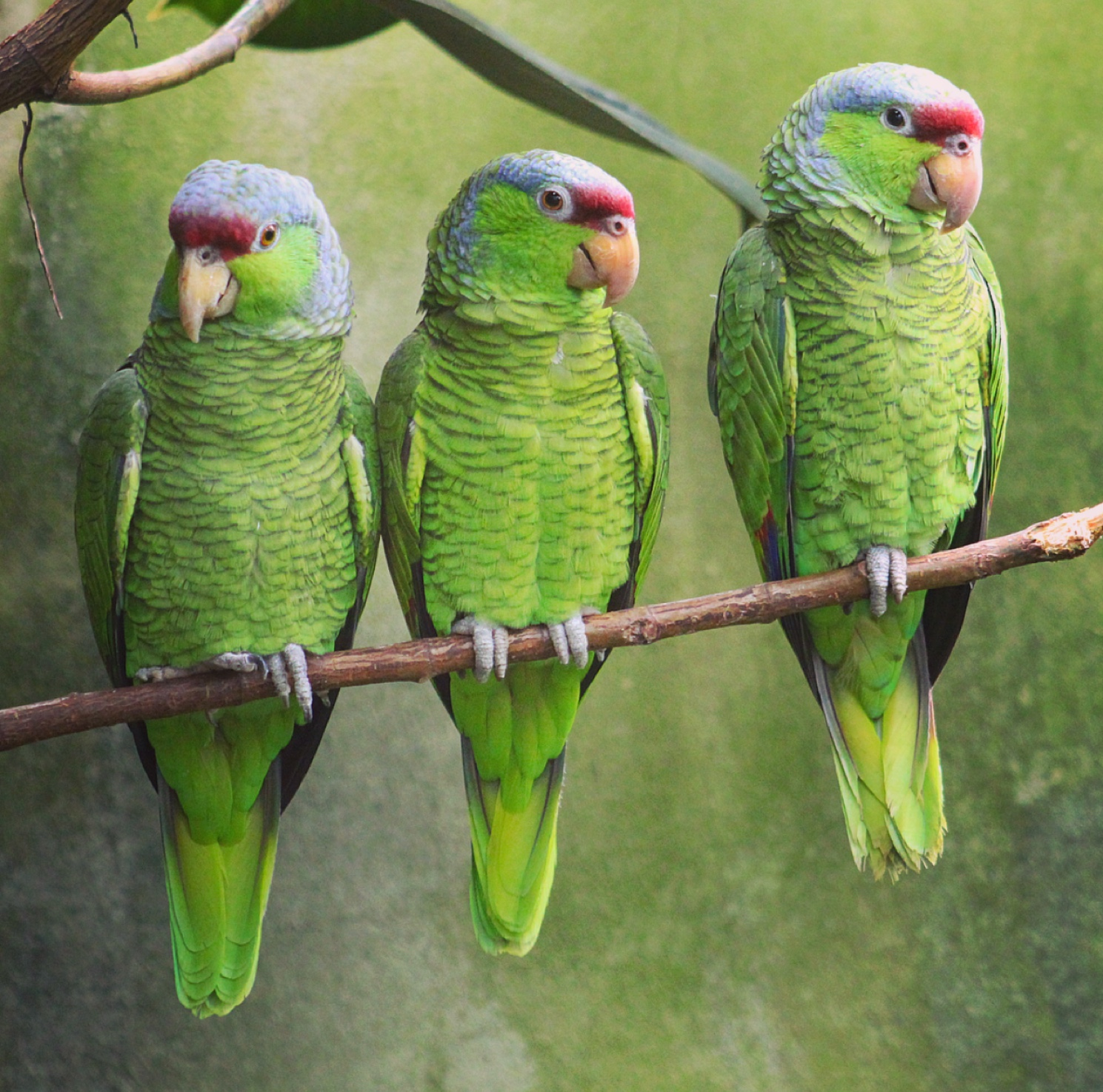 Three Lilac-crowned Amazon parrots housed in an indoor mixed-species aviary of a U.S. zoo.